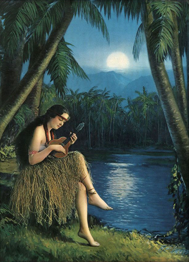 Hawaiian Melodies[1] by Rudolph F. Ingerle. Published by Brown & Bigelow.